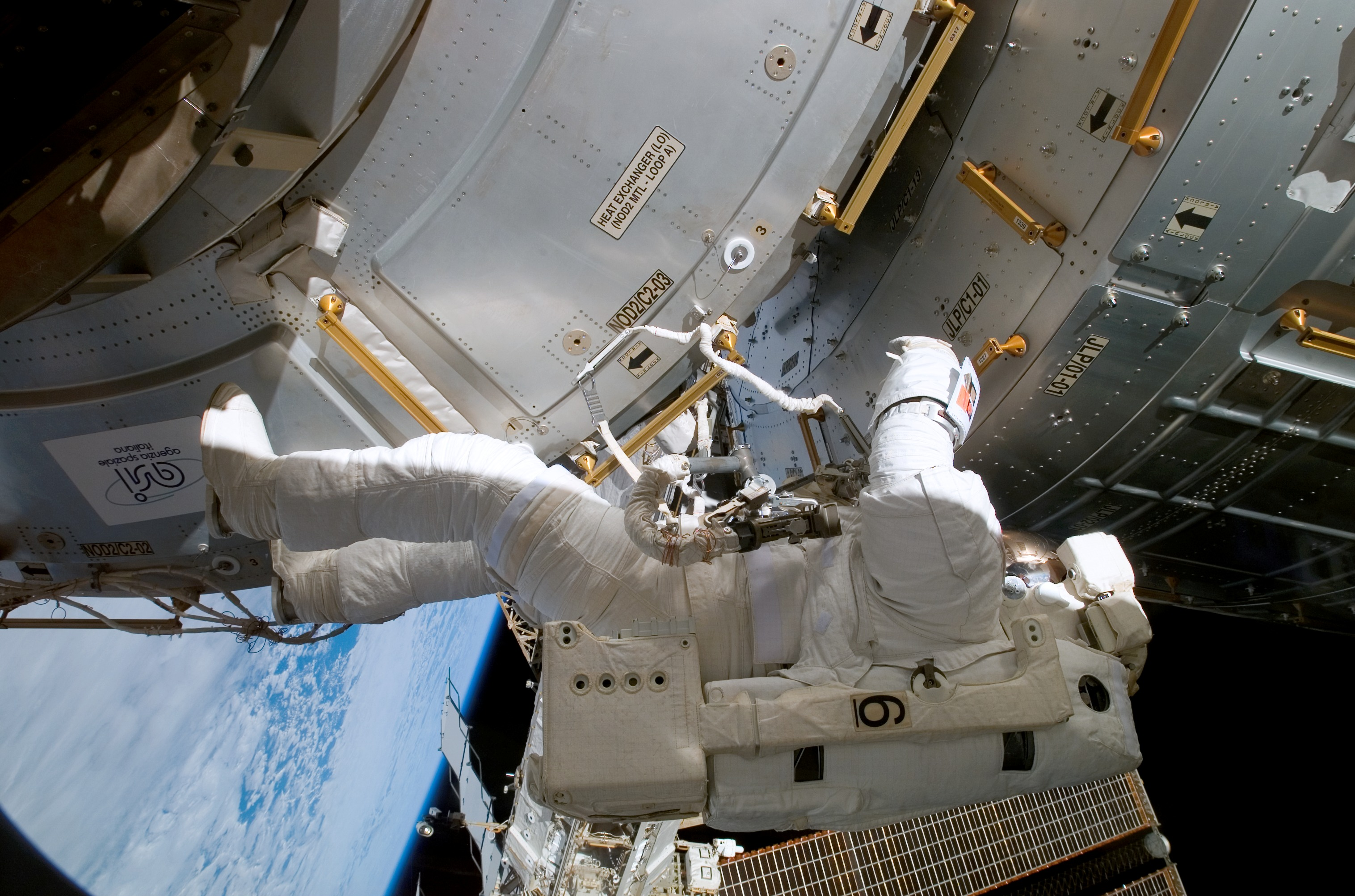 Astronaut Robert L. Behnken, STS-123 mission specialist, working with astronaut Mike Foreman (out of frame), nears the completion of the fifth and final spacewalk involving the STS-123/Expedition 16 crewmembers.